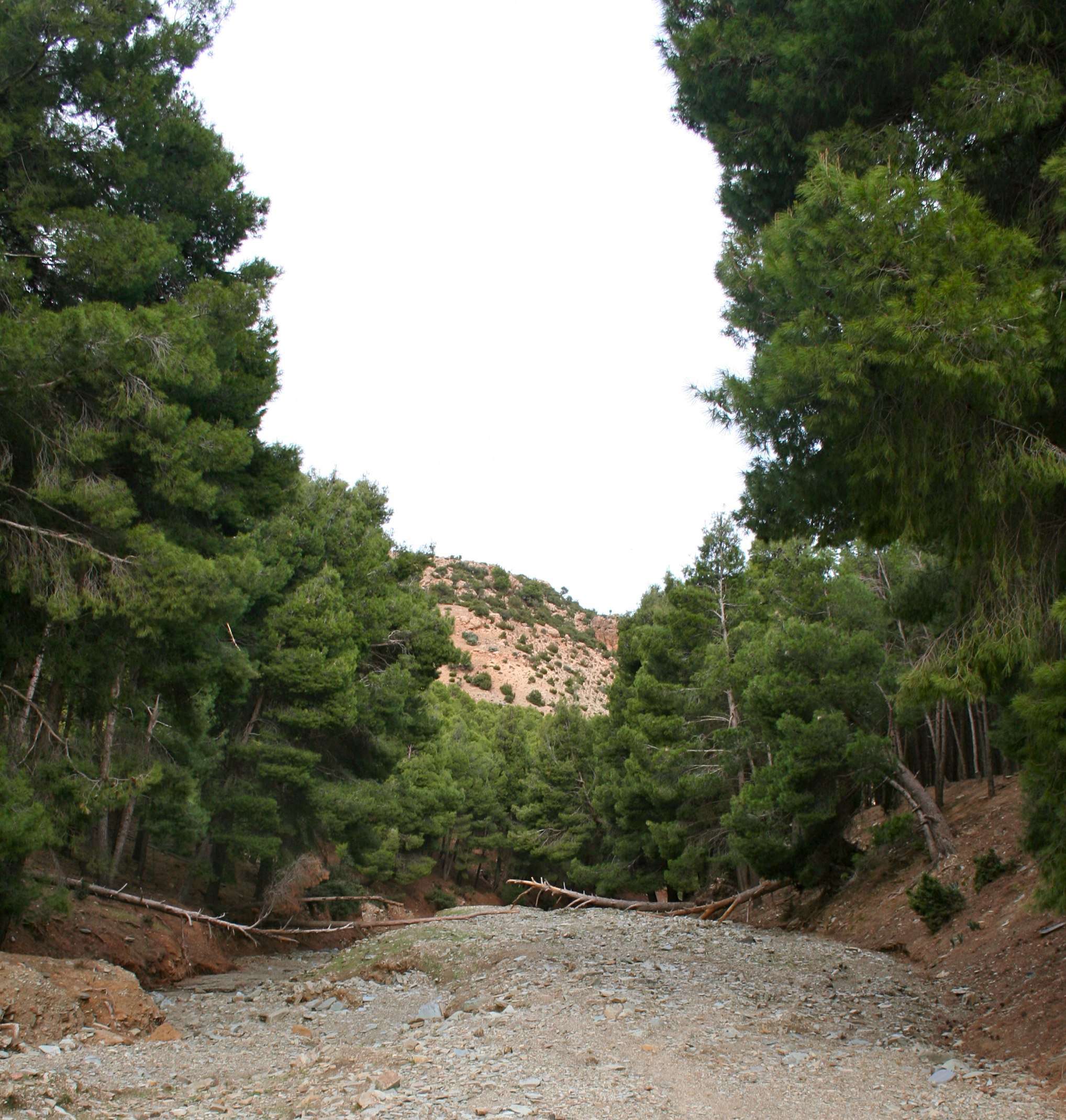 Pinus halepensis in the Atlas Mountains near Amizmiz, Morocco